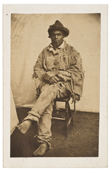 Civil War CDV of Gordon (slave) upon arrival at the Baton Rouge Union camp. Verso inked inscription "Contraband that marched 40 miles to get to our lines."